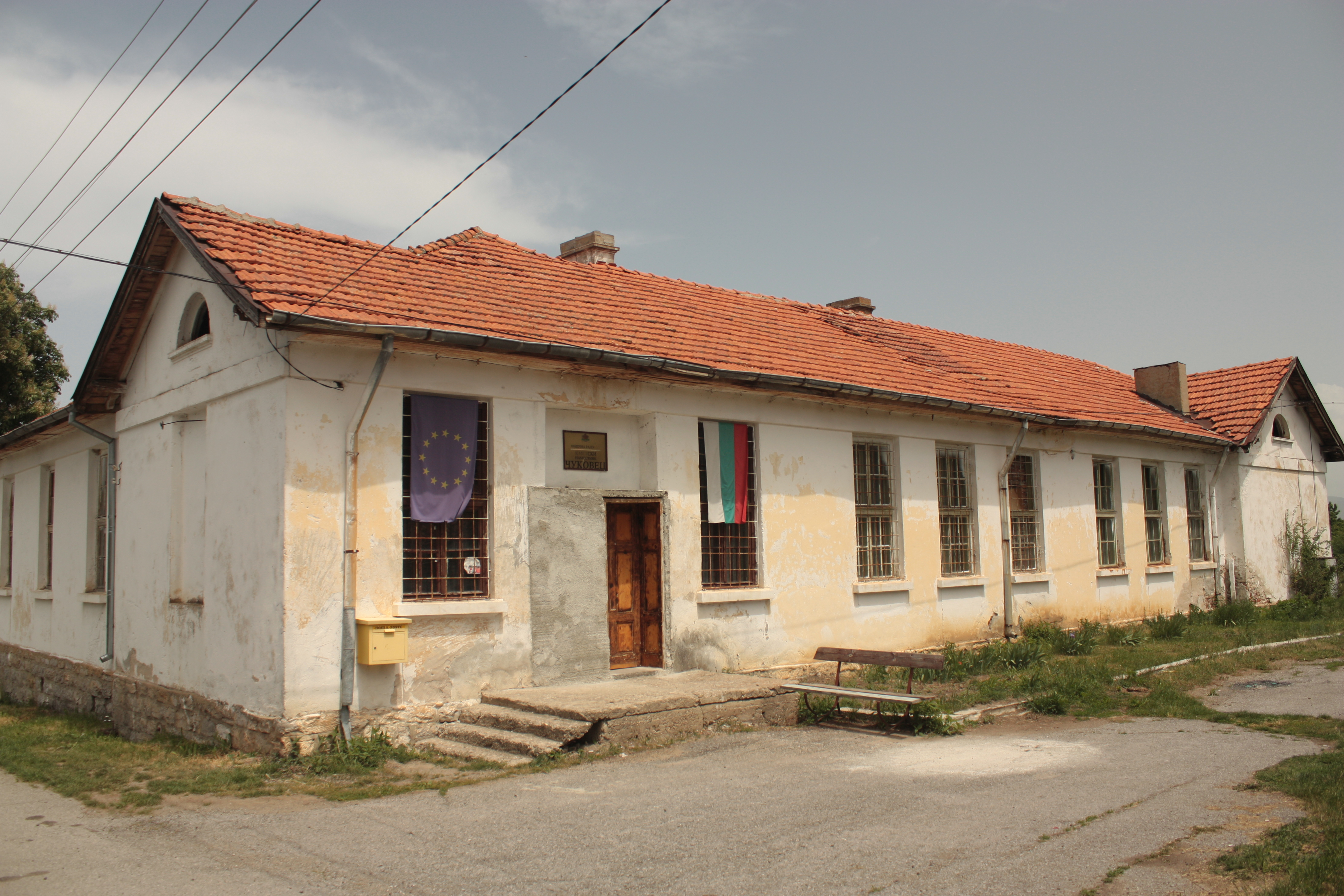 Municipality office in Chukovets, Pernik Province